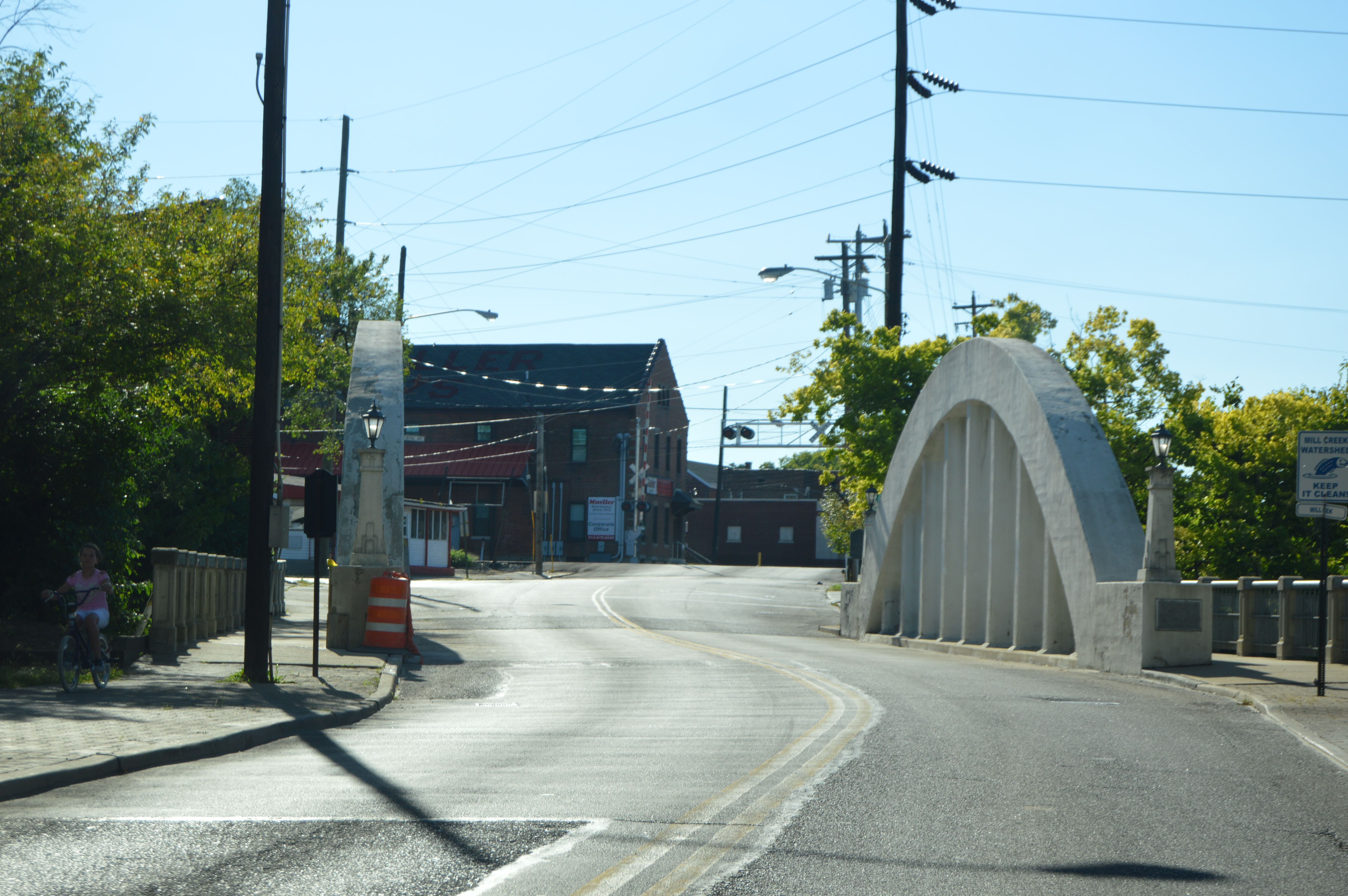 Looking westward over the Benson Street Concrete Bowstring Bridge, which carries Benson Street over Mill Creek between Lockland and Reading in Hamilton County, Ohio, United States. It was built in 1909.